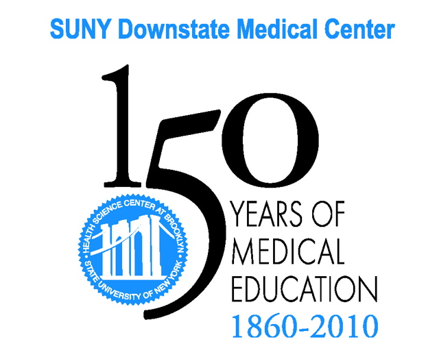 SUNY Downstate Sesquicentennial logo